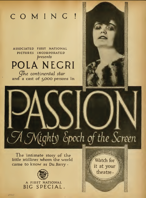 Pola Negri in Passion, ad in Motion Picture Classic 1920. This was the United States distribution title for the German film Madame Du Barry (1919).